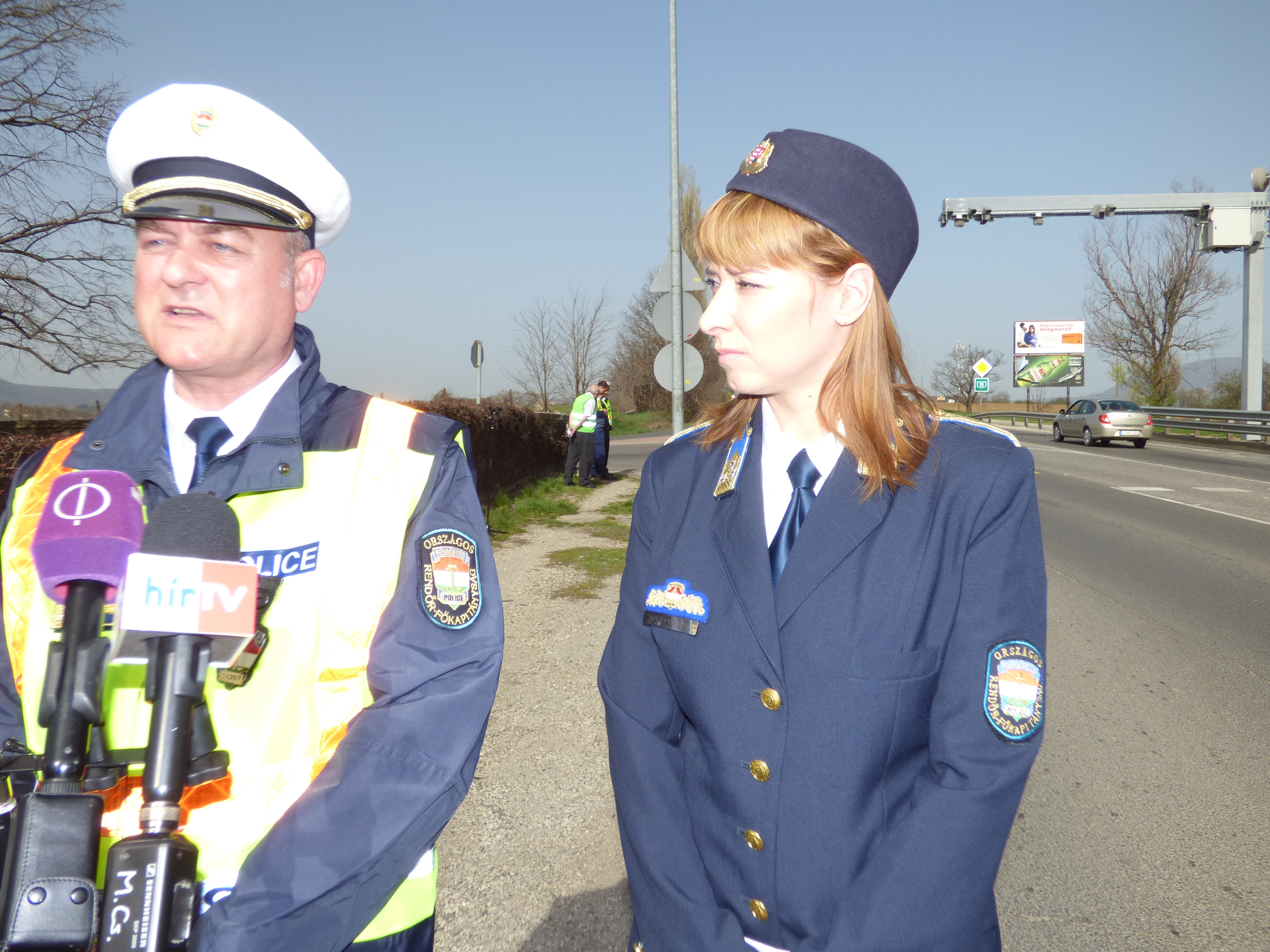 Óberling József és Csiszér-Kovács Viktória a Solymáron üzembe helyezett VÉDA ellenőrző pont avatásán